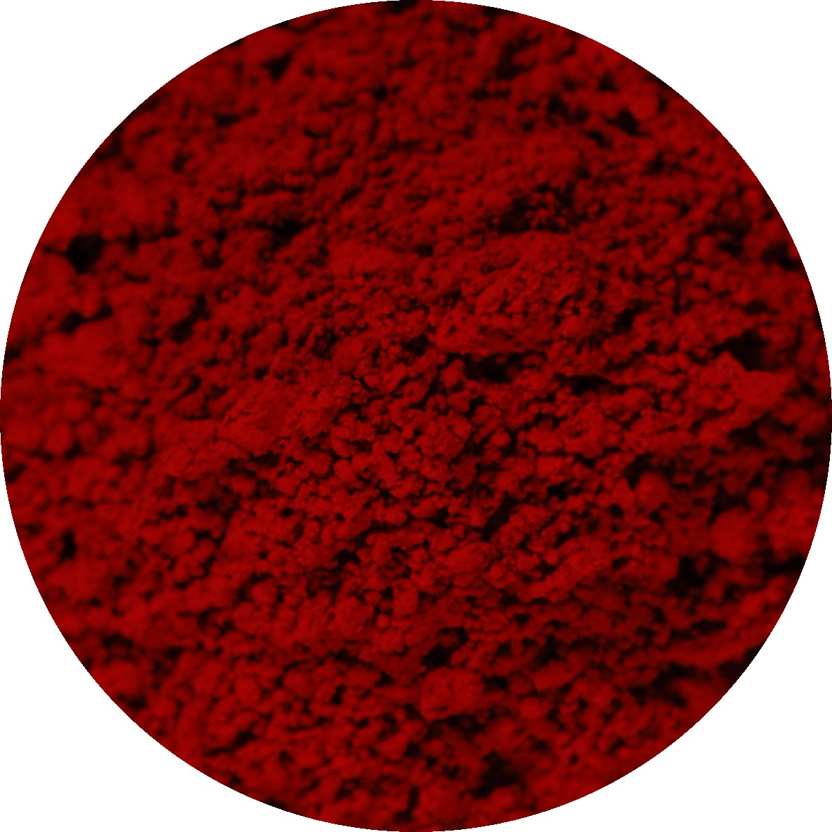 pigment red 108 cadmium